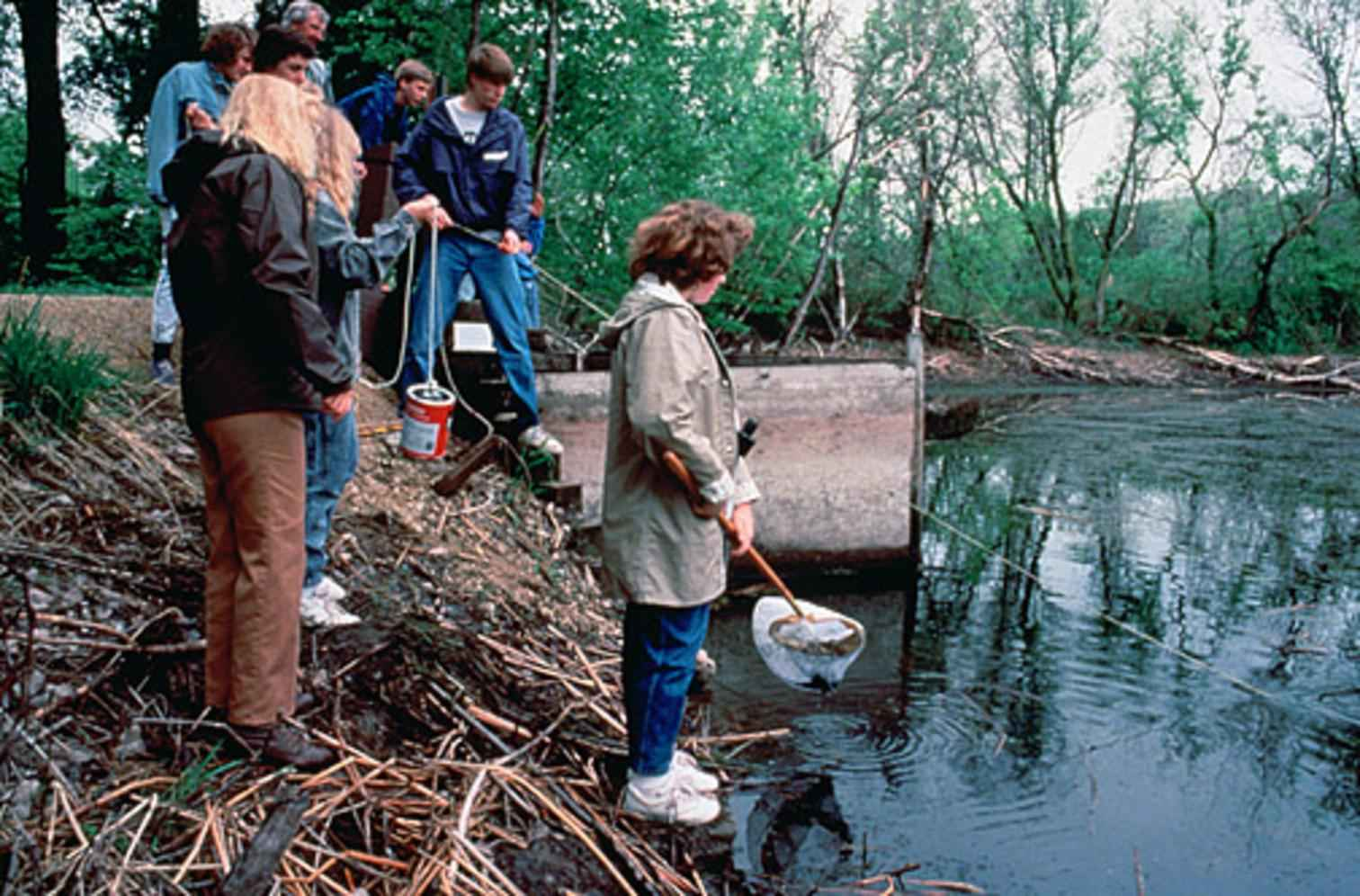 Image title: People cleaning river Image from Public domain images website